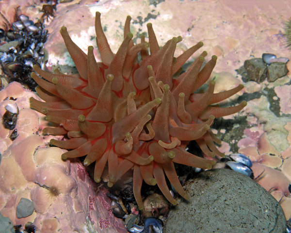 This is a Northern Red Anemone (Urticina felina) photographed October 21, 2007 by diver Ryan Murphy in Torbay, Newfoundland.